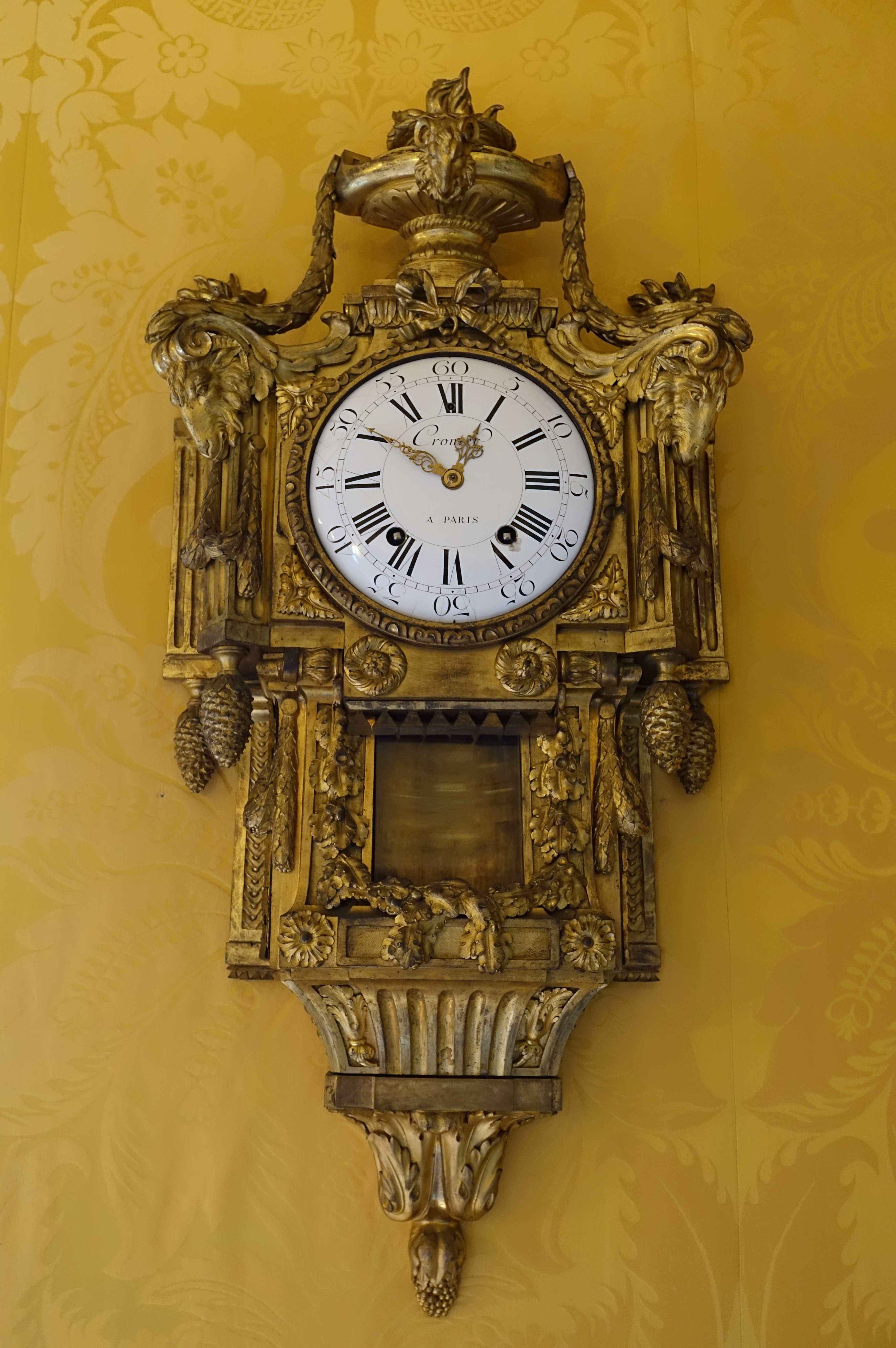 Object displayed in Harewood House - West Yorkshire, England.